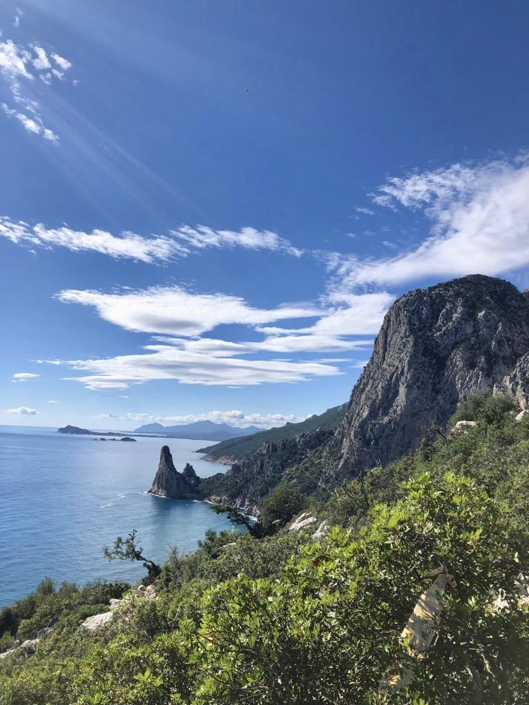 This is the view form the day one trek. It's possible to see the peak of Pedra Longa and the coastal town of Santa Maria Navarrese.